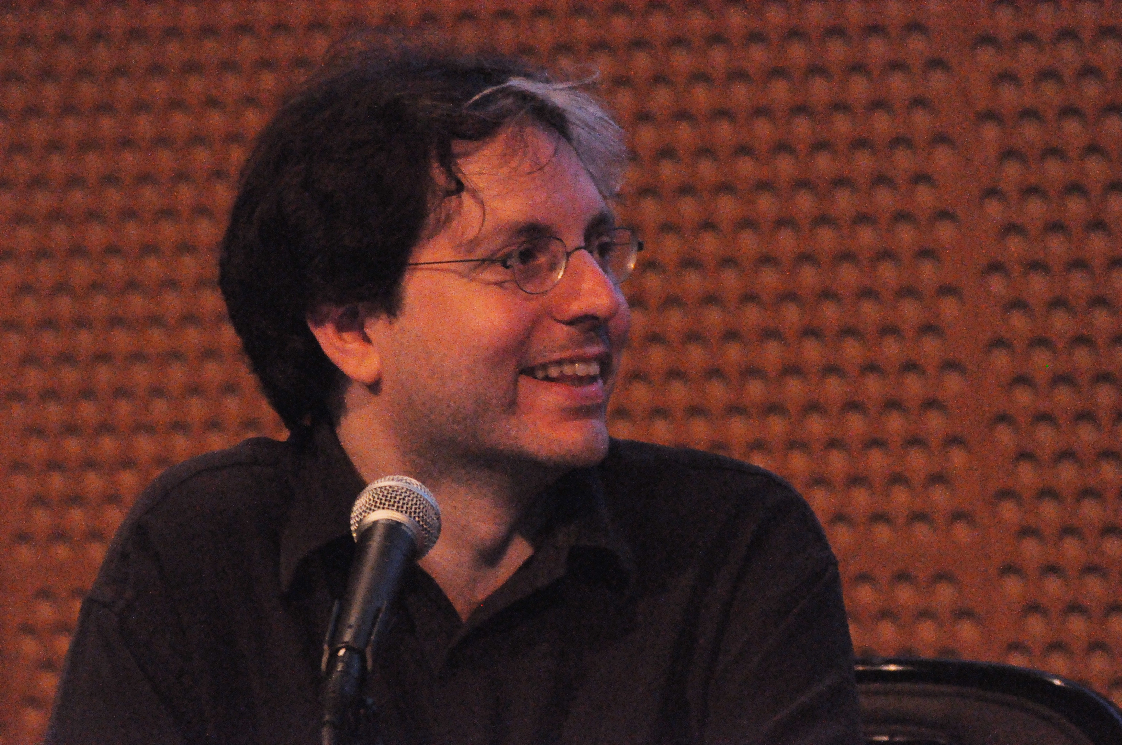 Douglas Wolk on the "Music in the '00s" panel, 2010 Pop Conference, EMPSFM, Seattle, Washington.